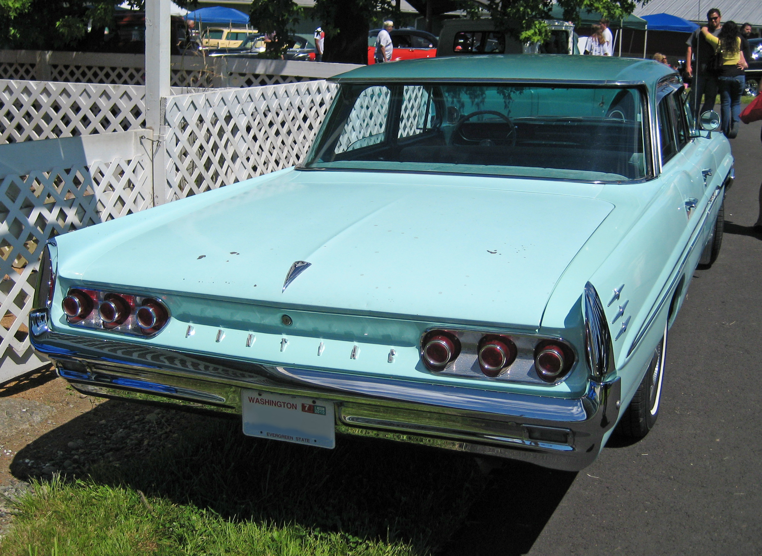 What were the ordinary family cars of yesterday are now the cool transportation. This 1961 Pontiac Star Chief Vista HT 4dr (model no 2439) was photographed at the 2010 Billetproof show in Washington state.